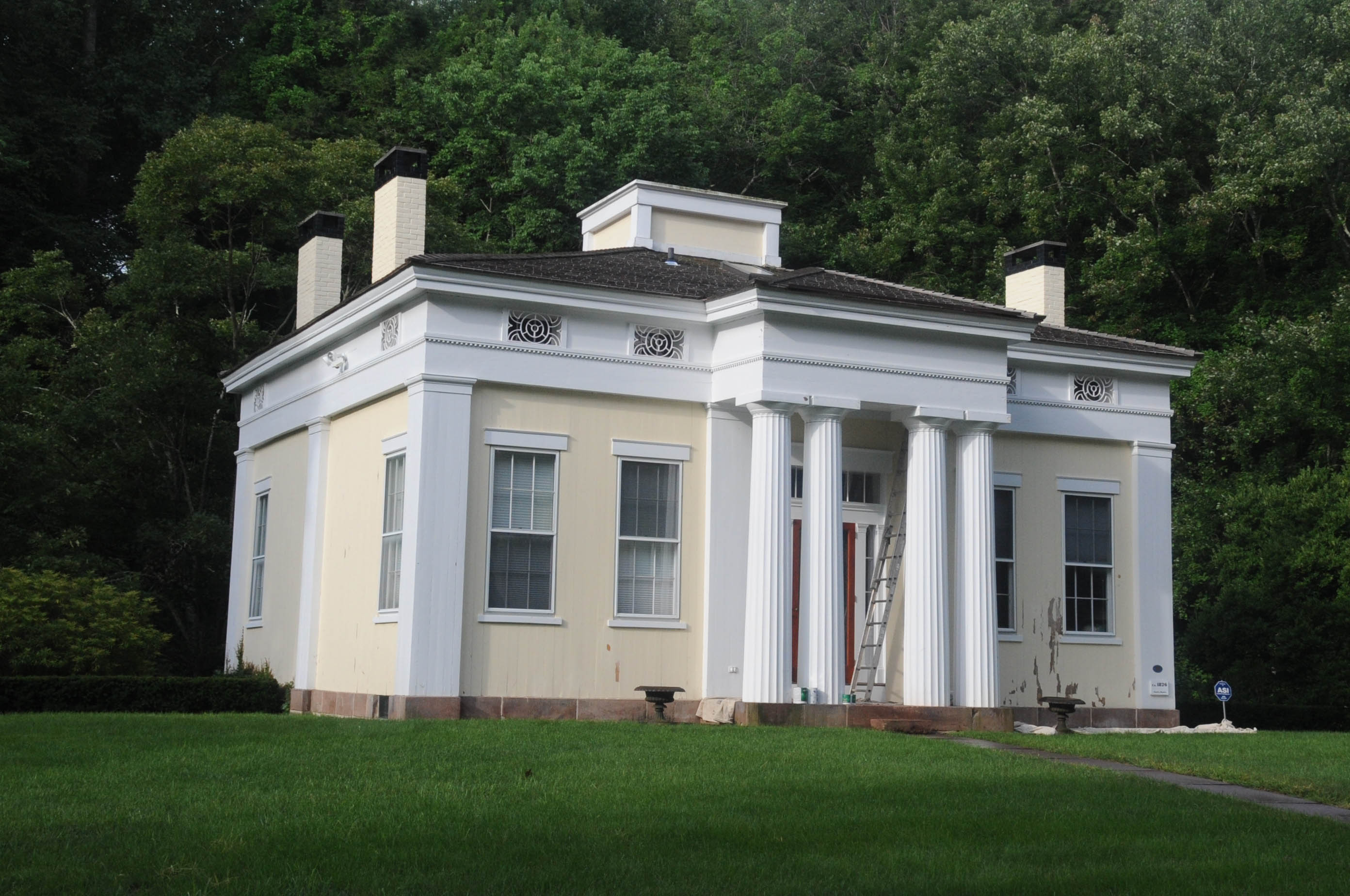 THE HOUSE WAS BUILT, PROBABLY IN THE LATE 1820S, FOR CHARLES DANIELS, WHO HAD A GIMLET FACTORY NEARBY, AND IS AN EXCELLENT LOCAL EXAMPLE OF GREEK REVIVAL ARCHITECTURE.